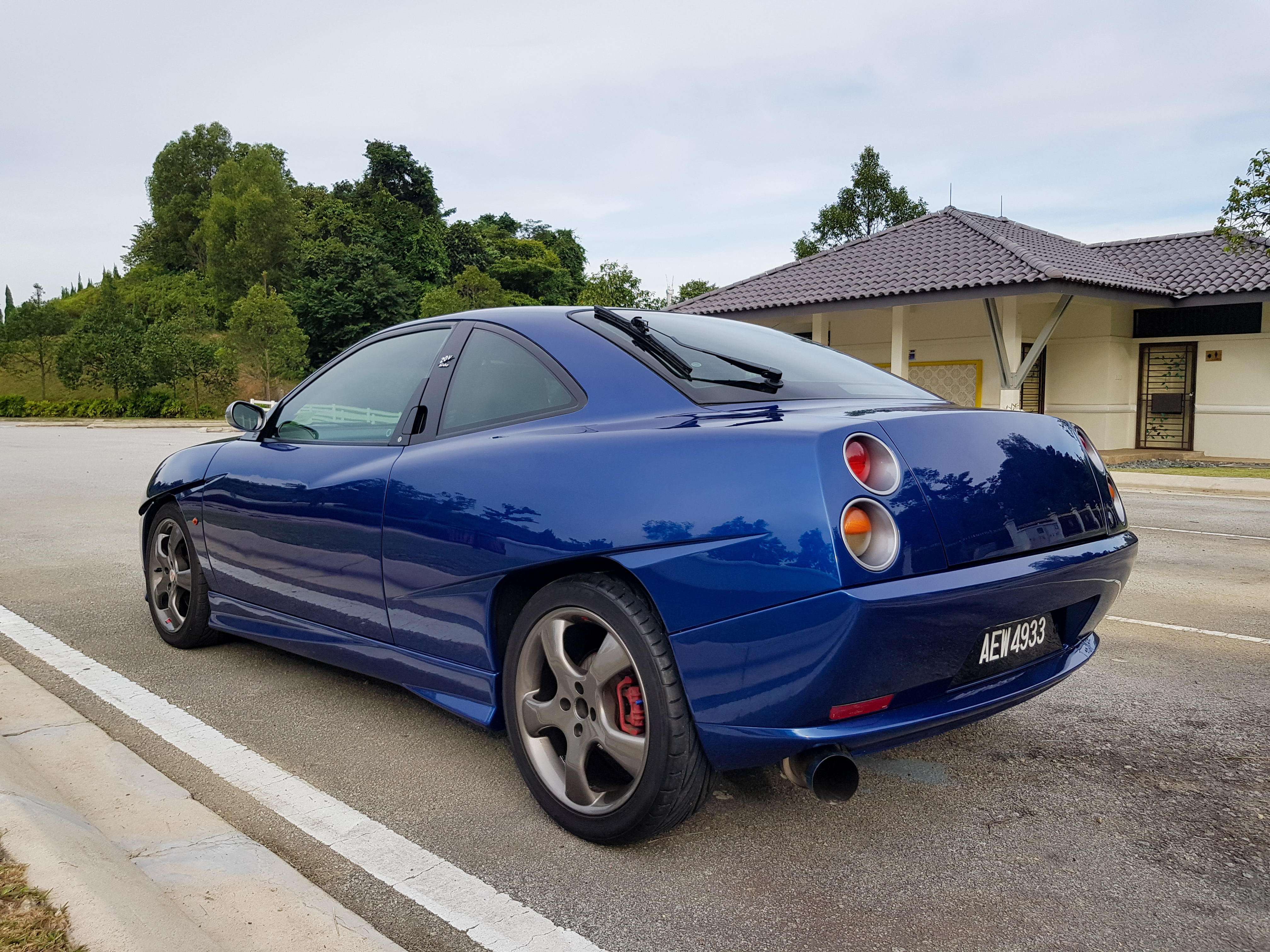 Limited Edition variant's side mirrors and rear light cups had touches of Grigio Titanio (titanium silver).